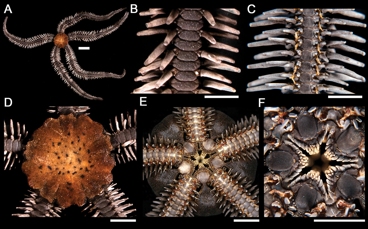 Ophiocoma aethiops Lütken, 1859. A : dorsal view. Scale bar = 15 mm B : dorsal view of the arm C : ventral view of the arm D : dorsal view of the disk E : ventral view of the disk F : jaw. Scale bar = 5 mm.